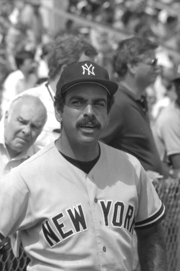 Juan Bonilla in Tallahassee, Florida